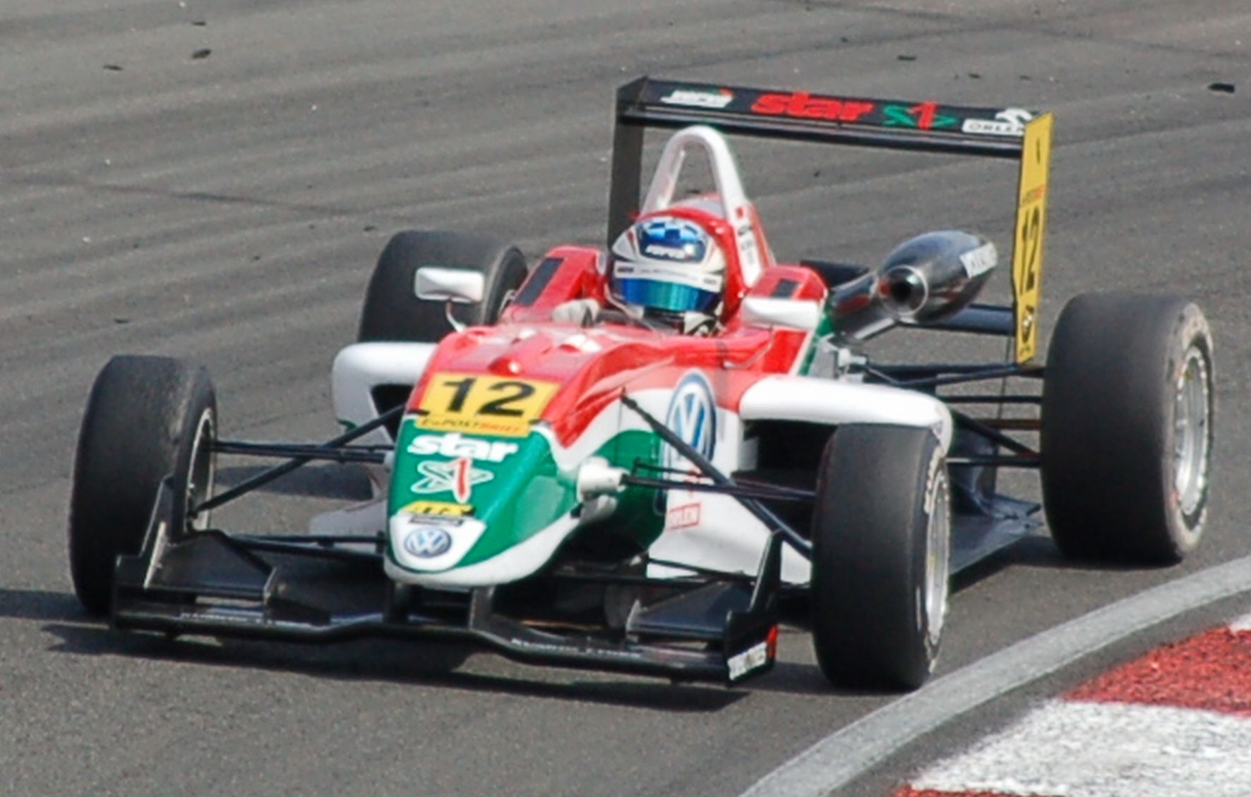 Kuba Giermaziak at Zandvoort 2011